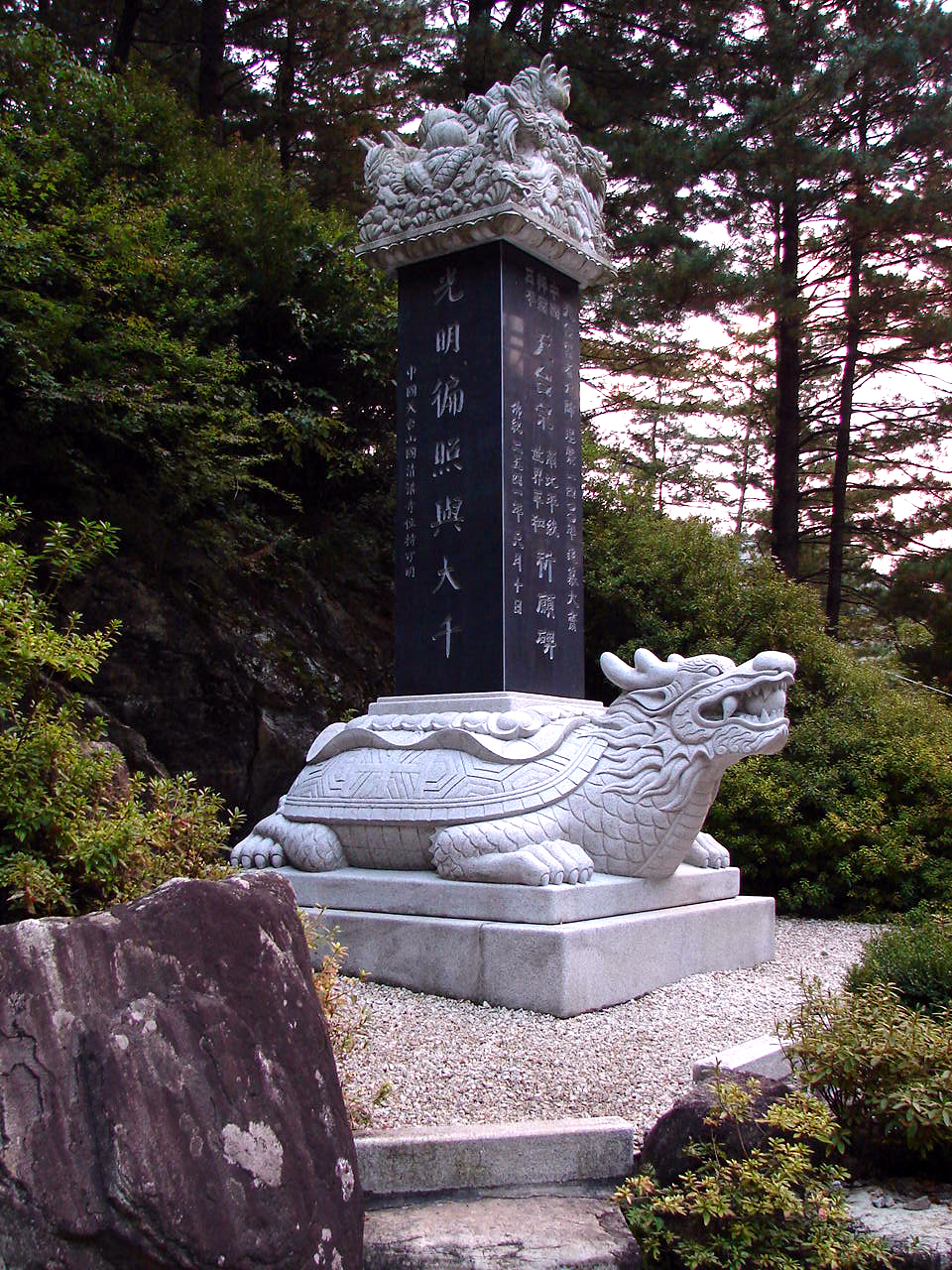 Stele at Guinsa, located near Danyang South Korea, has architecture following that of many other Buddhist temples in Korea, but is also markedly different in that the structures are several stories tall, instead of the typical one or two stories that structures found in many other Korean temples.